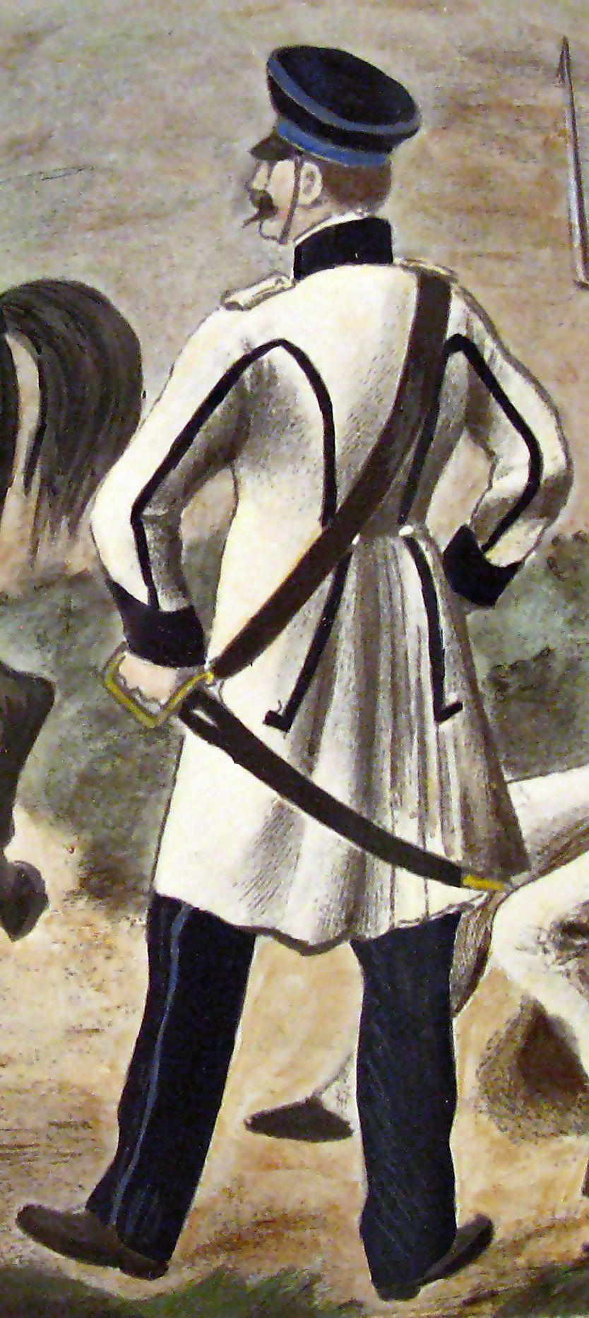 11th Infantry Regiment of Polish Army of November Uprising.